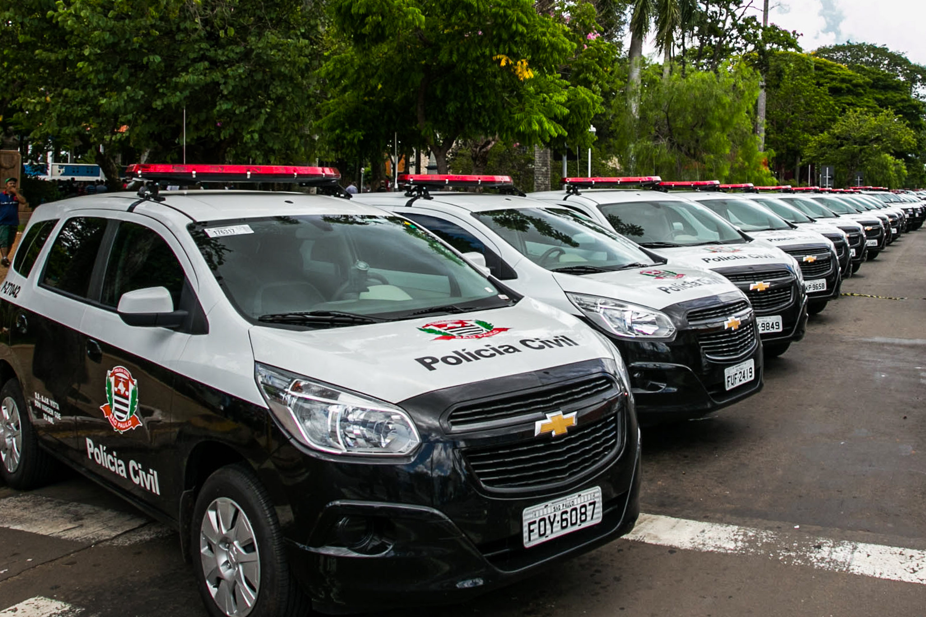 O governador Geraldo Alckmin entrega 47 Viaturas da Polícia Civil para as seccionais de: Limeira (10); Rio Claro (6); São João da Boa Vista (8); Americana(8); Casa Branca (7) e Piracicaba (8) na cidade de Leme.Data: 11/03/2015. Local: Leme/SP.Foto: Diogo Moreira/A2 FOTOGRAFIA